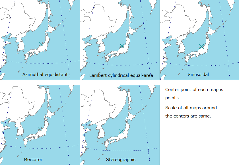 This compares 5 map projections around the center of each projection. The centers of all projections are 137.75deg E, 37.68deg N (marked by x). Scales of all maps around the centers of projections are same.